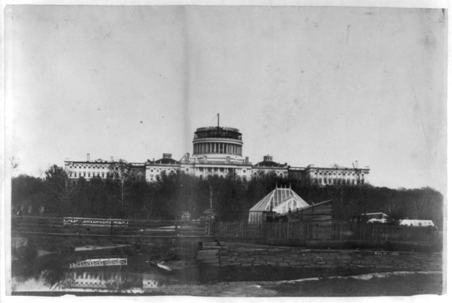 Title: West front of the United States Capitol, with the new cast-iron dome under construction. In the foregrd. is the Tiber Creek or Washington City Canal and the octagonal greenhouse for the Botanic Garden Abstract/medium: 1 photographic print.